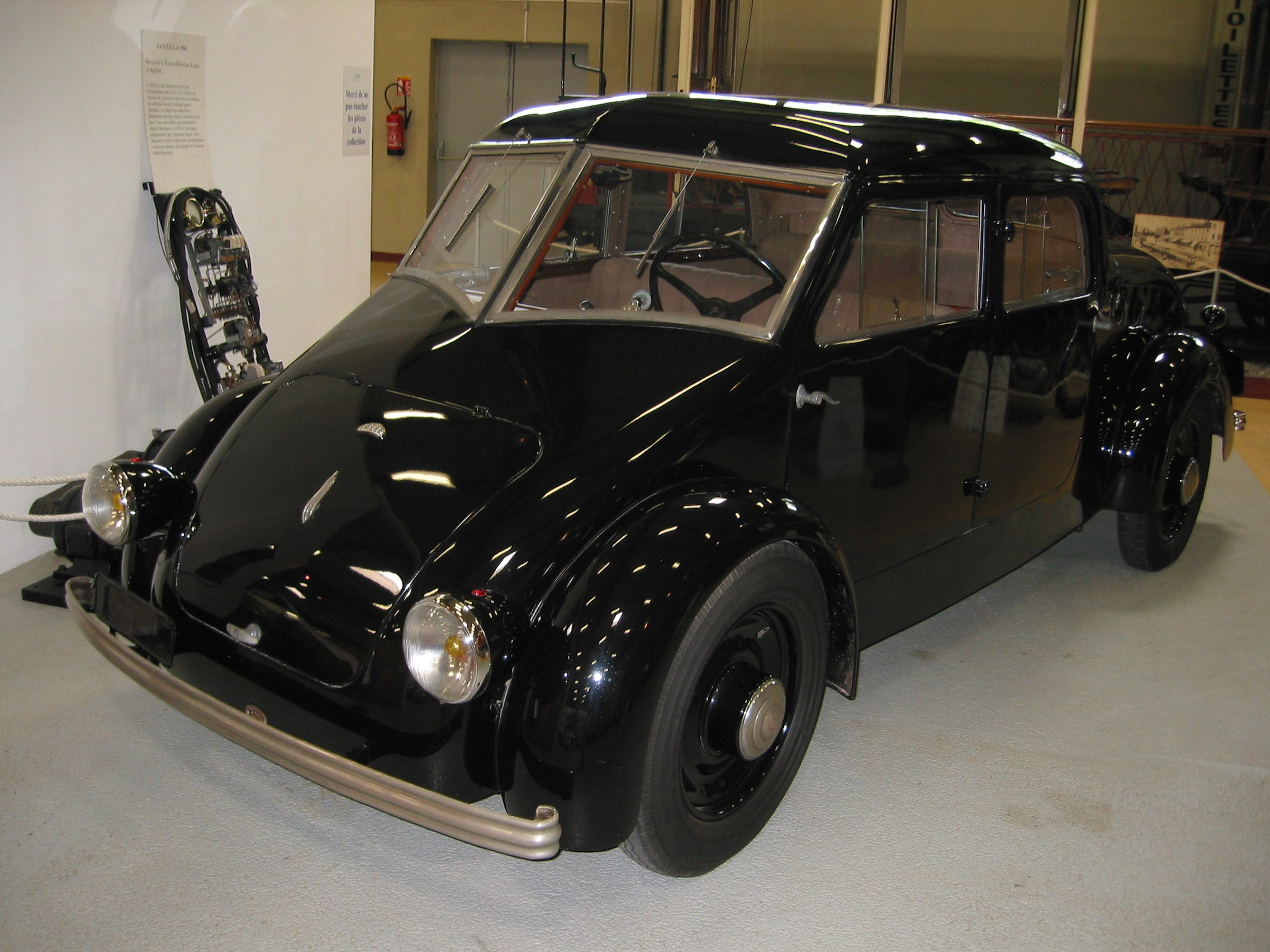 Stéla 1942 (Country of origin: France)